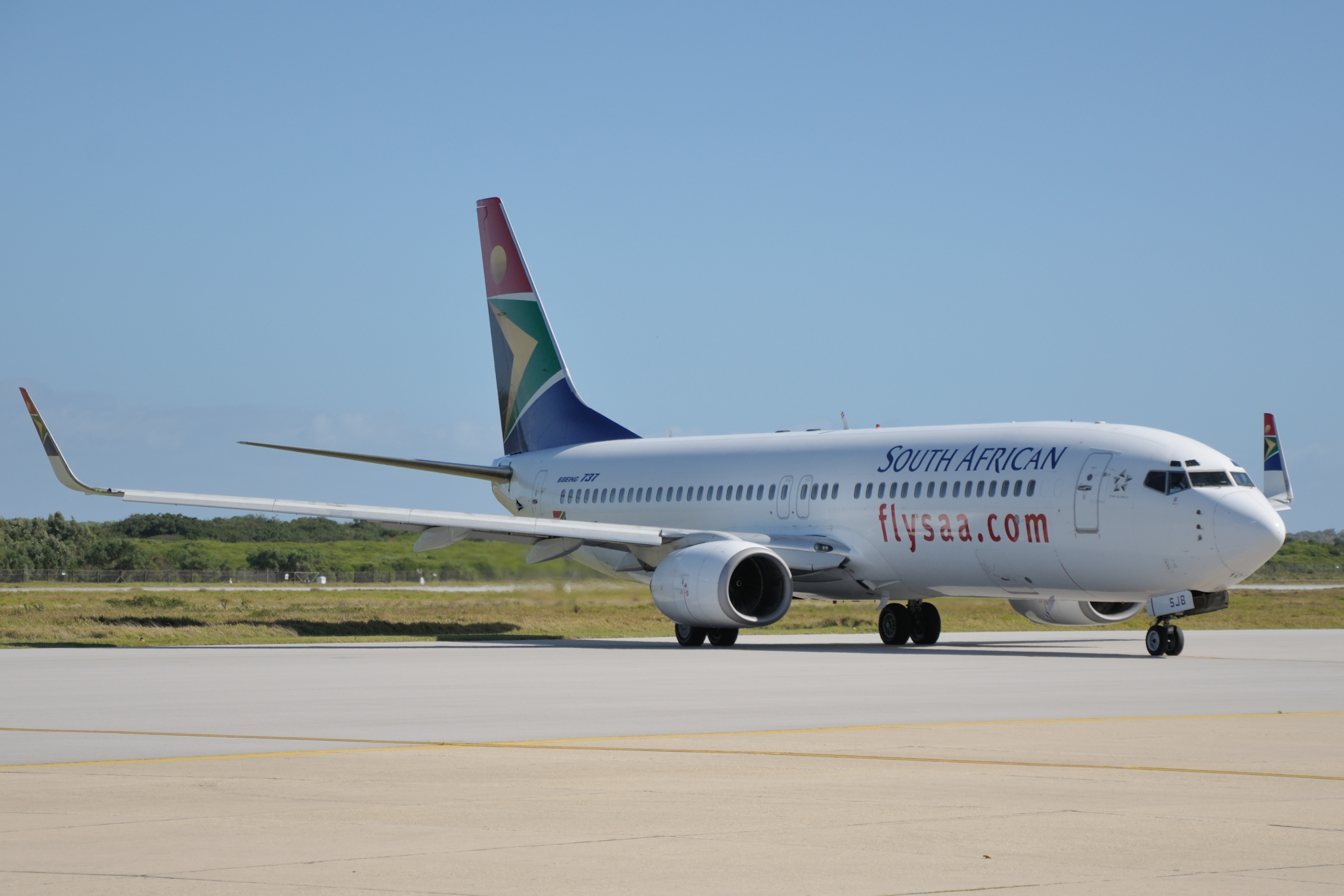 South Africa, spotting at King Shaka International Airport in Durban